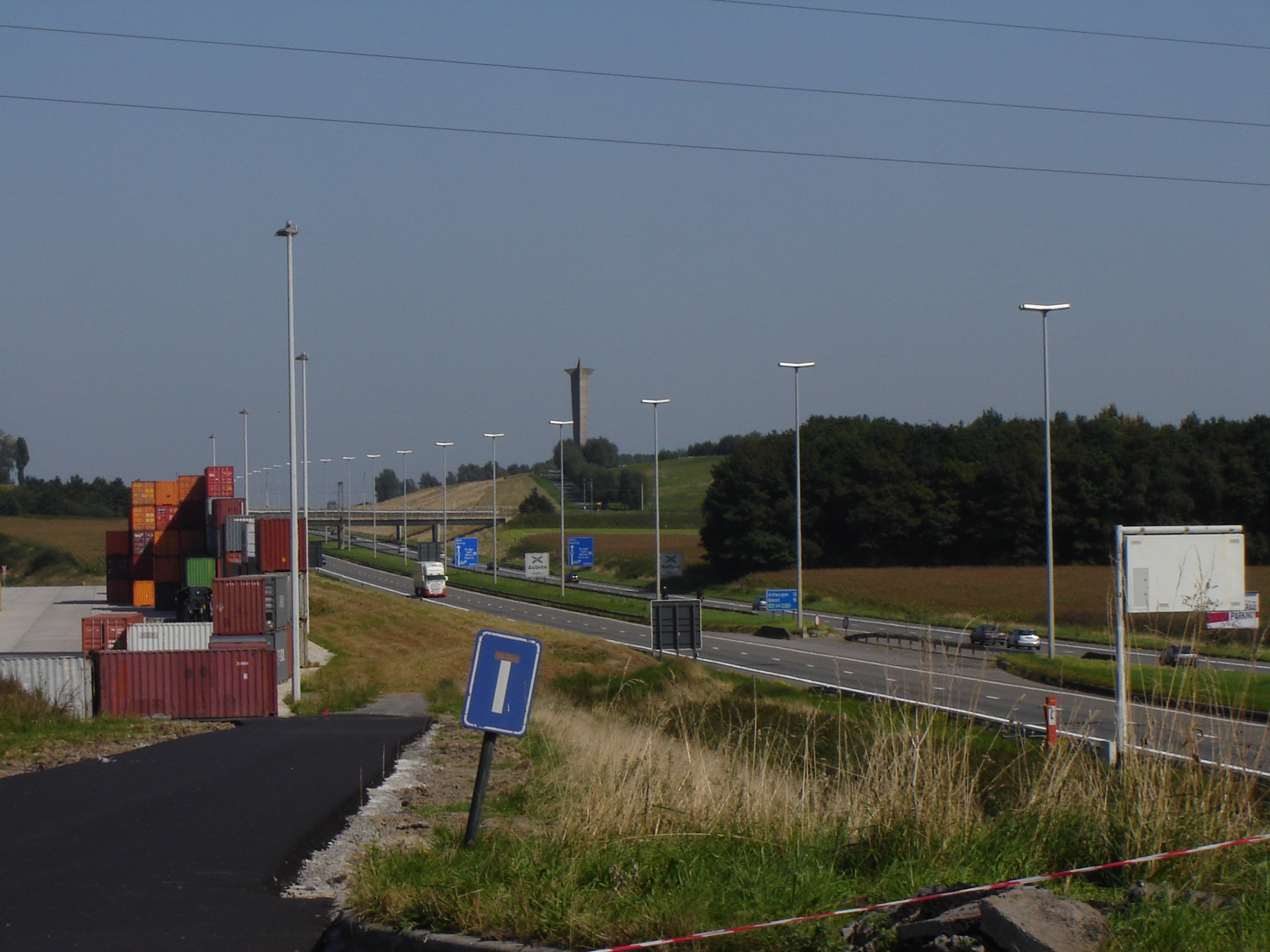 Highway E17, seen from the industrial zone LAR (Lauwe-Aalbeke-Rekkem). View on the monument De Sjouwer. Lauwe and Rekkem are part of Menen, West Flanders, Belgium Aalbeke is part of Kortrijk, West Flanders, Belgium